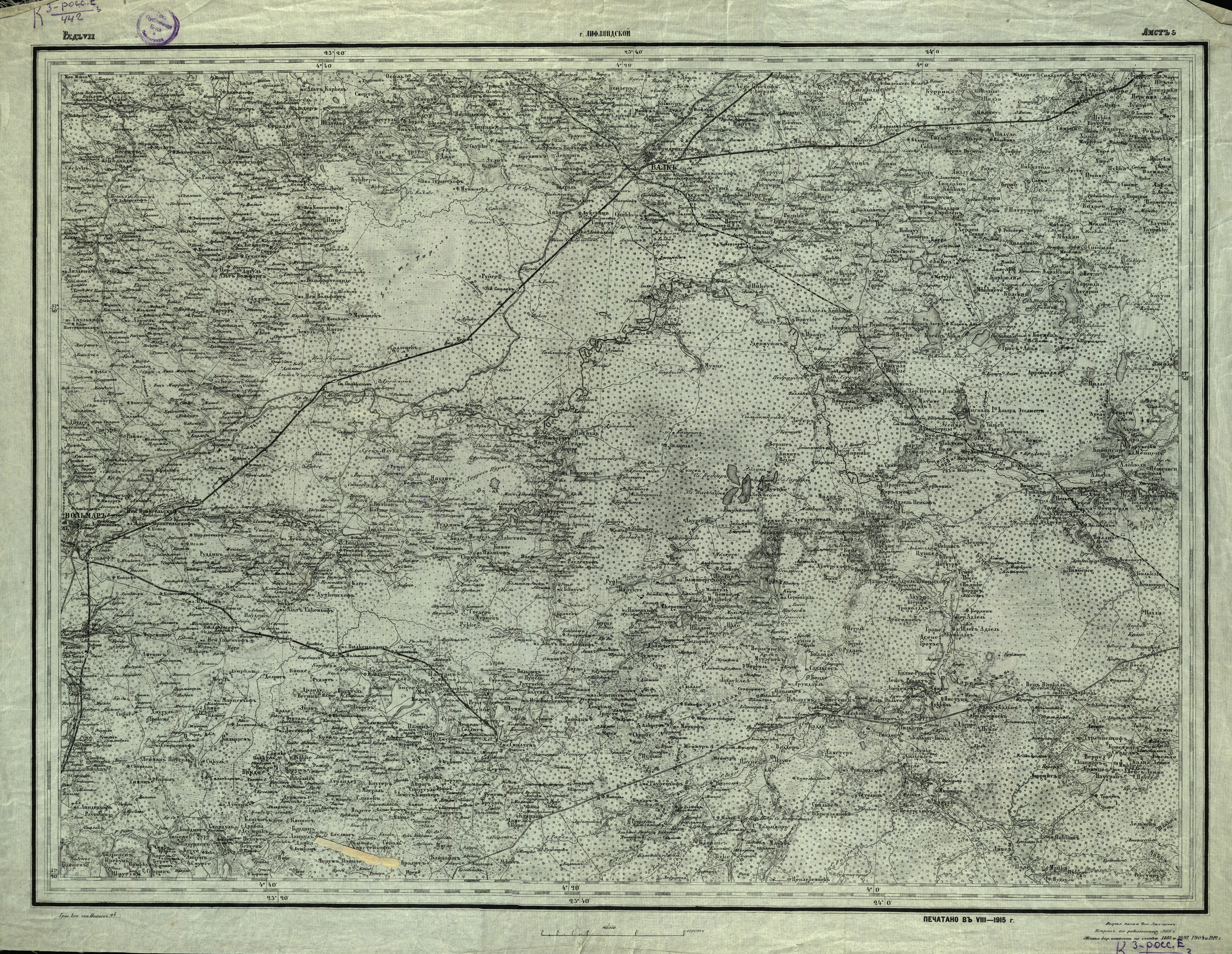 "Shubert's map". Fragment of topographic map of Russian Empire. 3 versta in inch (1260 m in 1 cm).